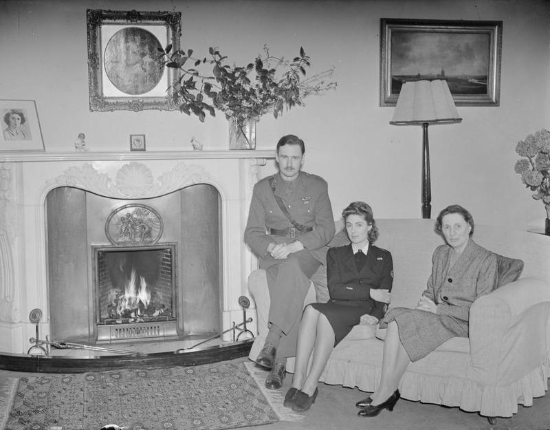 Rosyth C in C's Daughter To Be An April Bride. 21 March 1945, Admiralty House, North Queensferry, Fife. Miss Margot Whitworth, Vad, Daughter of Admiral Sir William J Whitworth, Kcb, Dso, C in C Rosyth, and Lady Whitworth, With Her Fiance, Major Gordon Alston, Re, of Fareham, Hants, Who Are To Married at St Mark's, North Audley Street, on April 4. Both Wear the North African Star. Miss Margot Whitworth and her fiance, Major Alston, with Lady Whitworth in the drawing room at Admiralty House.